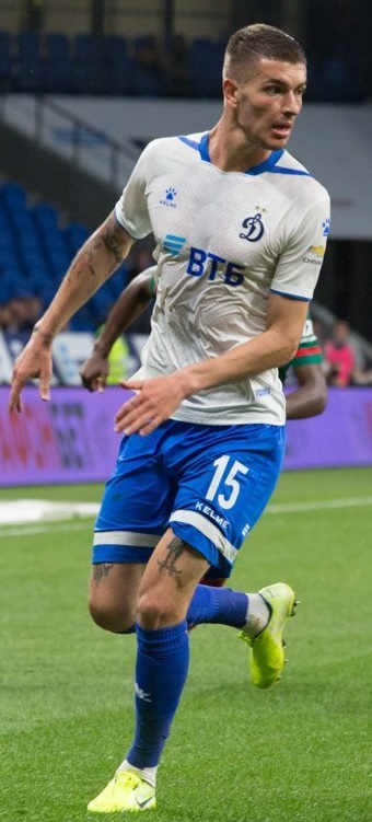 Roman Neustädter with FC Dynamo Moscow in a game against FC Lokomotiv Moscow.